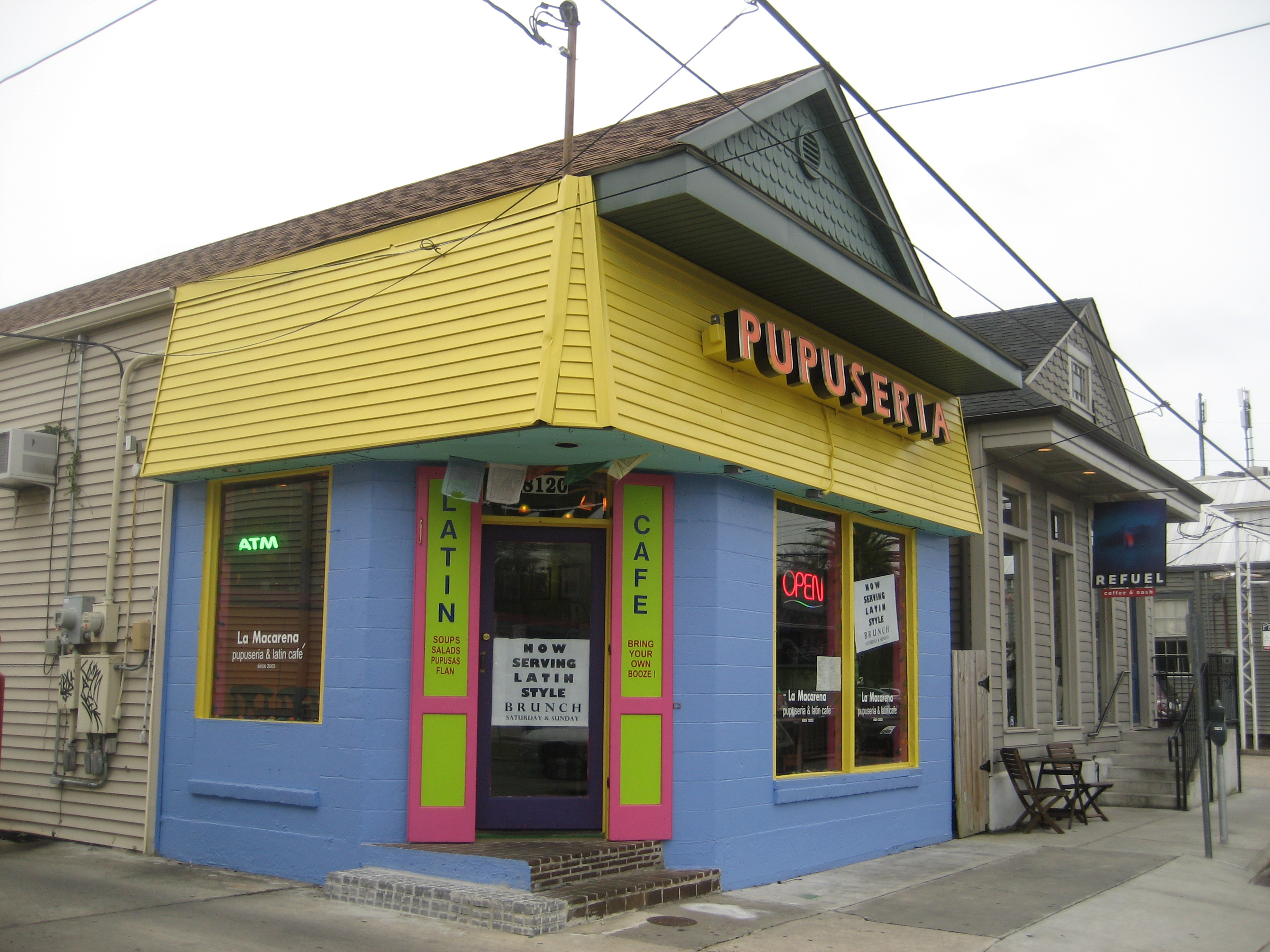 Pupuseria La Macarena, Central American style restaurant, Hampson Street, Riverbend, New Orleans